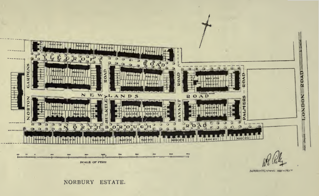 Image from the Report of the Housing for the Working Classes Committee, London County Council. 1912-1913. William Edward Riley signature appears on the drawings, and he signed off all the building depicted. (1913) Housing of the working classes in London. Notes on the action taken between the years 1855 and 1912 for the better housing of the working classes in London, with special reference to the action taken by the London County Council between the years 1889 and 1912 (Odhams, Digitised by Google ed.), London: London County Council Retrieved on 8 June 2016.